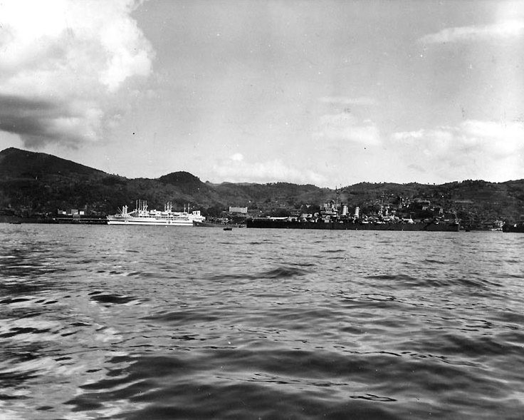 The U.S. Navy heavy cruiser USS Wichita (CA-45) in Nagasaki harbour, Japan, in September 1945, a few weeks after the end of World War II. The hospital ships in the left background are USS Sanctuary (AH-17) and USS Haven (AH-12).